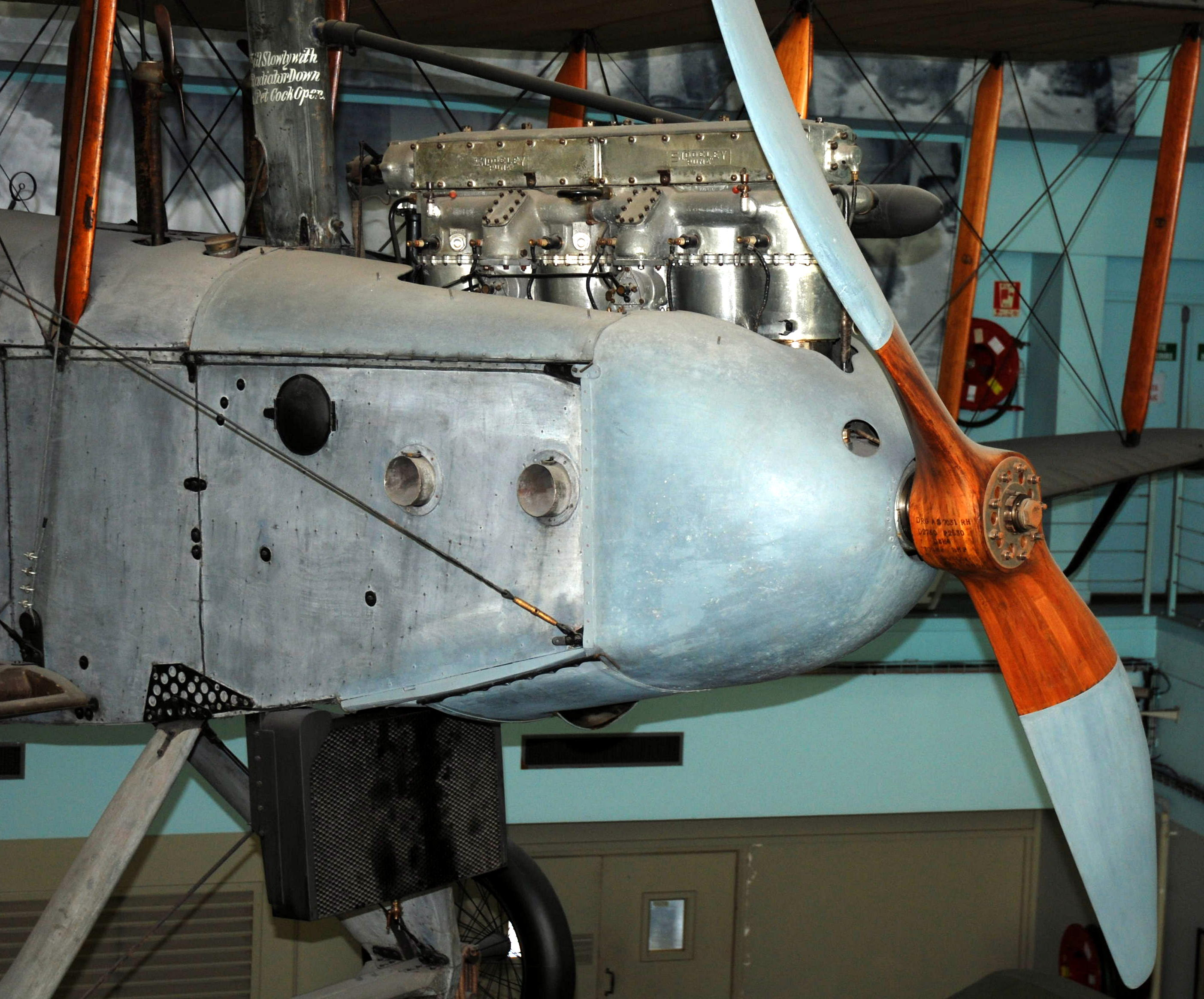 Photo ref; Nikon-D80-2013-DSC_1066 (Edited)